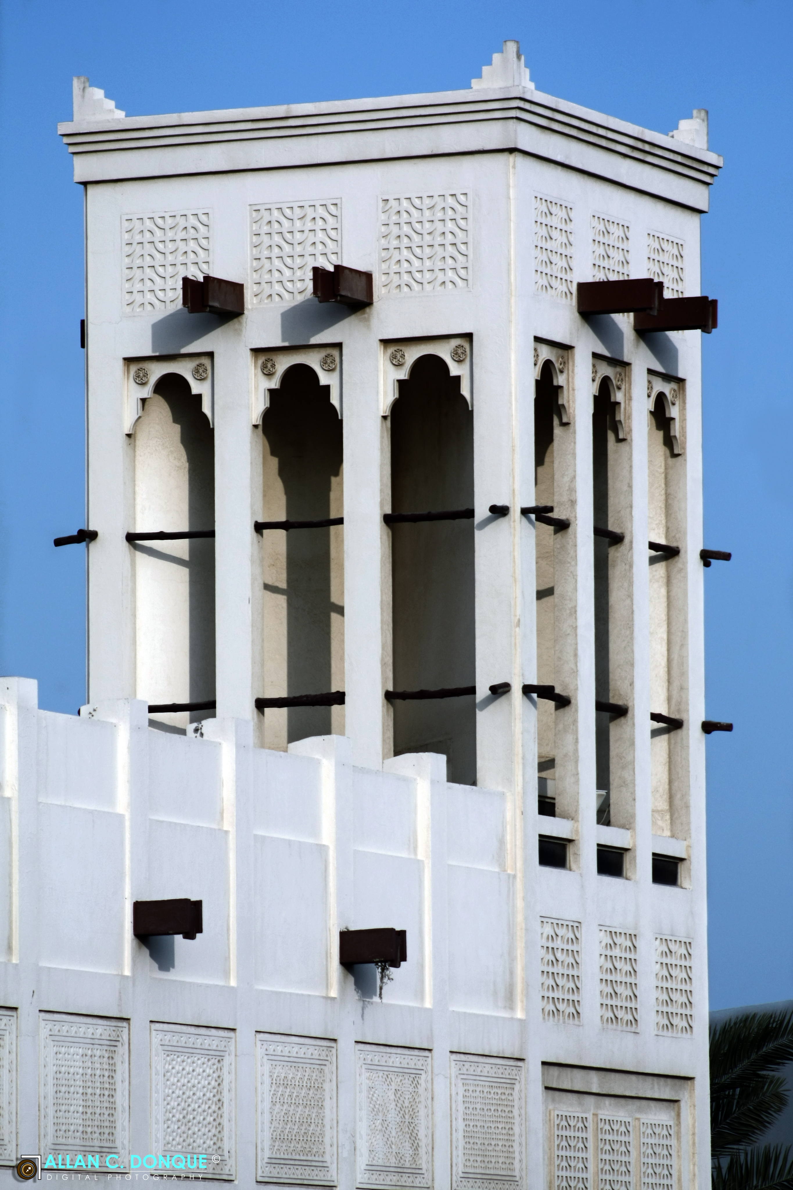 A wind tower located in Bahrain.